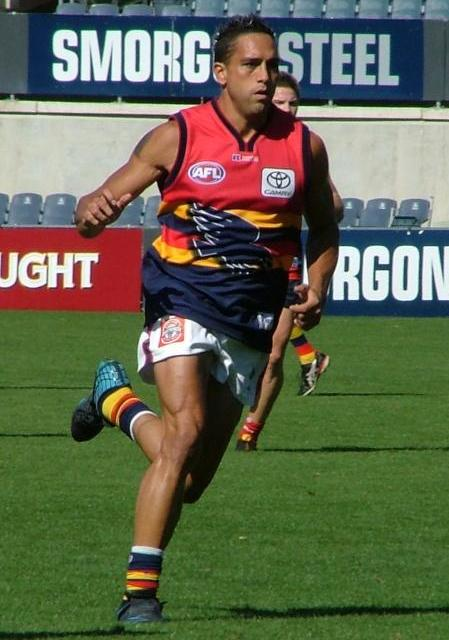 Andrew McLeod with the Adelaide Crows